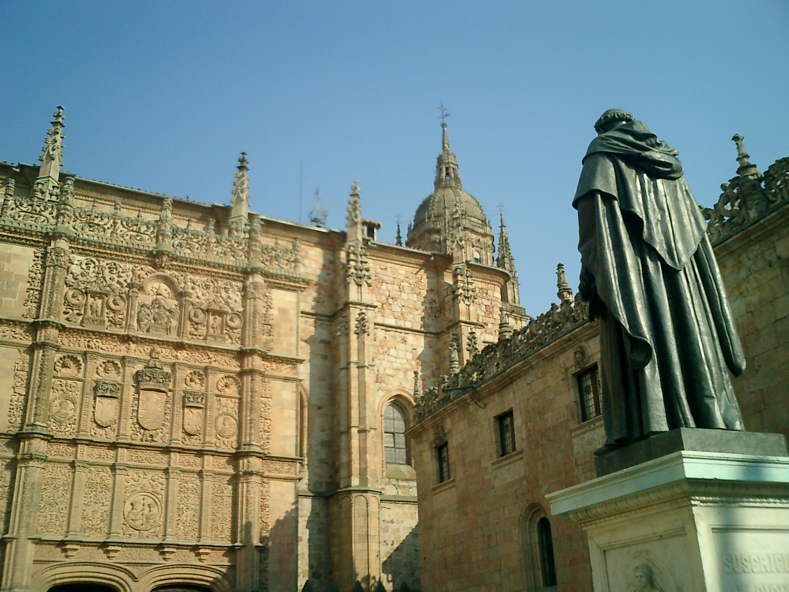 Catedral Nueva de Salamanca, Salamanca, Spain